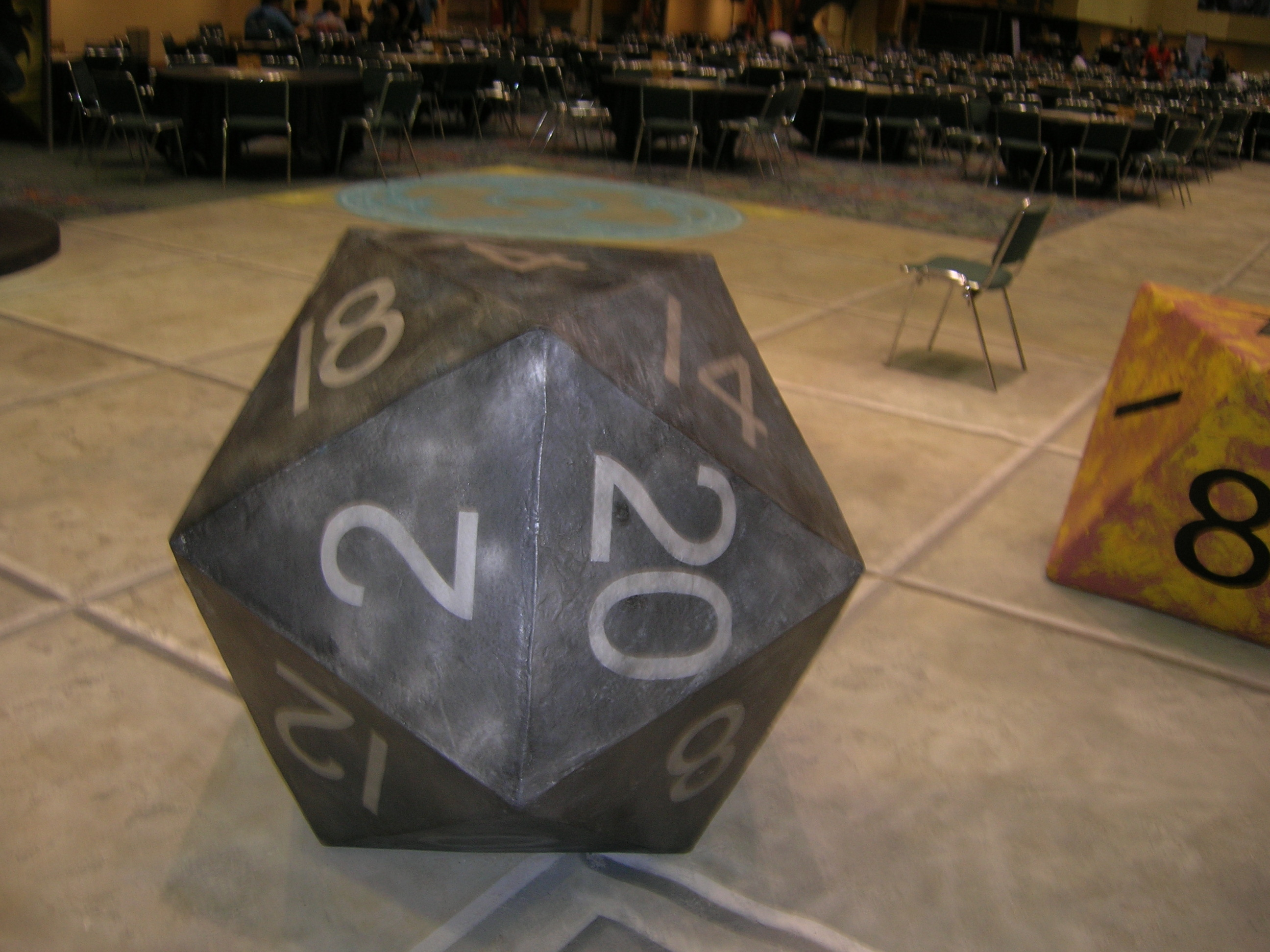 An enormous D20 and nearly-as-enormous D8 remain calm at Gen-Con 2007.